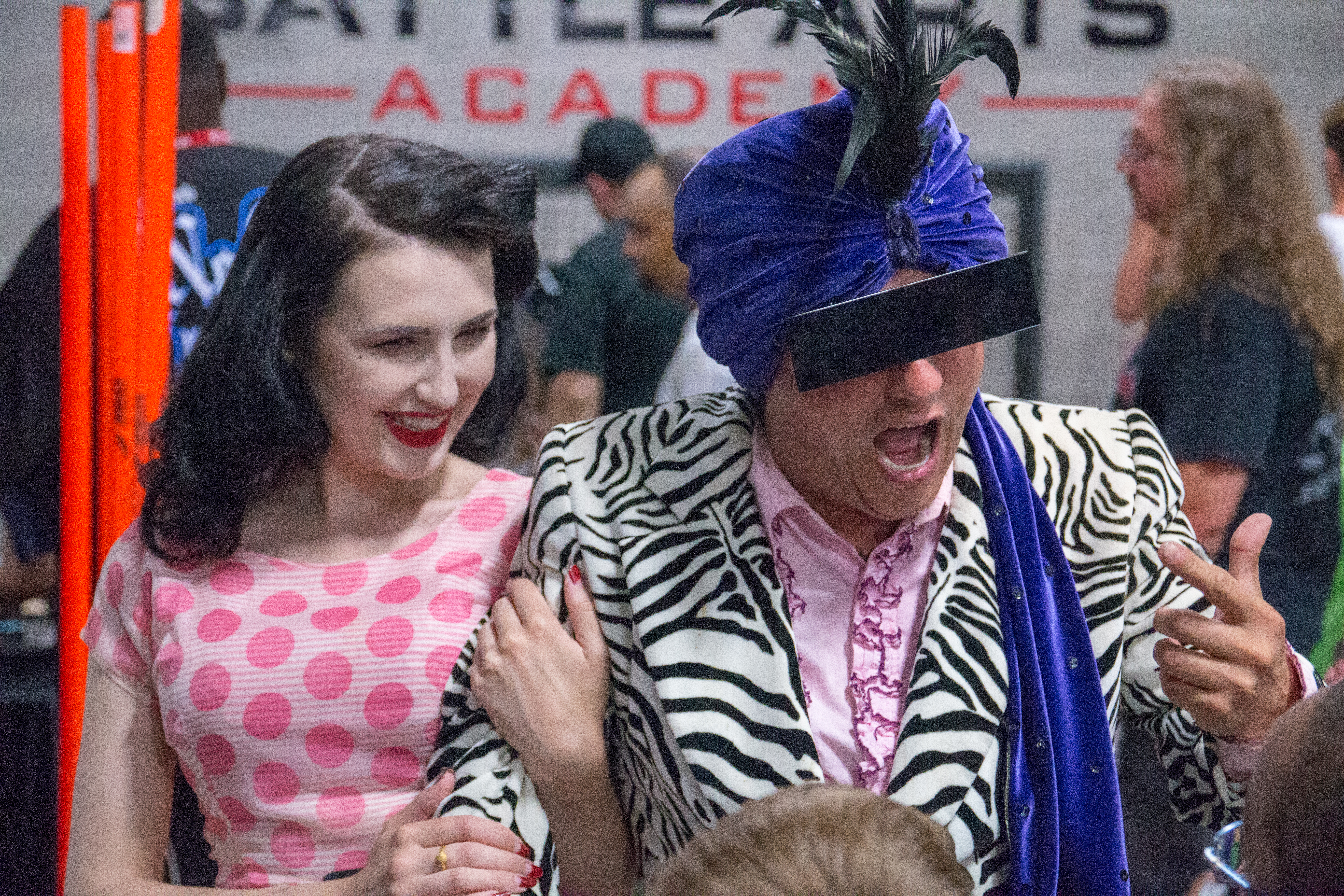 Mind-reading duo The Sentamentalists (Steffi Kay left, Mysterion on the right) at a Destiny Wrestling show in Mississauga, ON